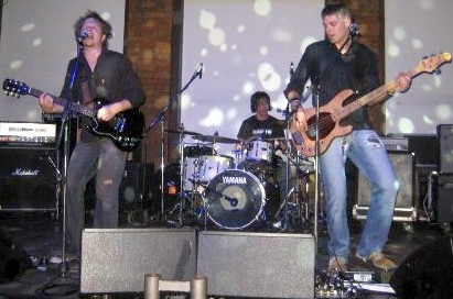 Brisbane rock band Transport photographed by Lyn Nuttall on stage at The Zoo, Brisbane, October 2006. Cropped and modified for brightness/contrast using ArcSoft PhotoStudio 5.5.